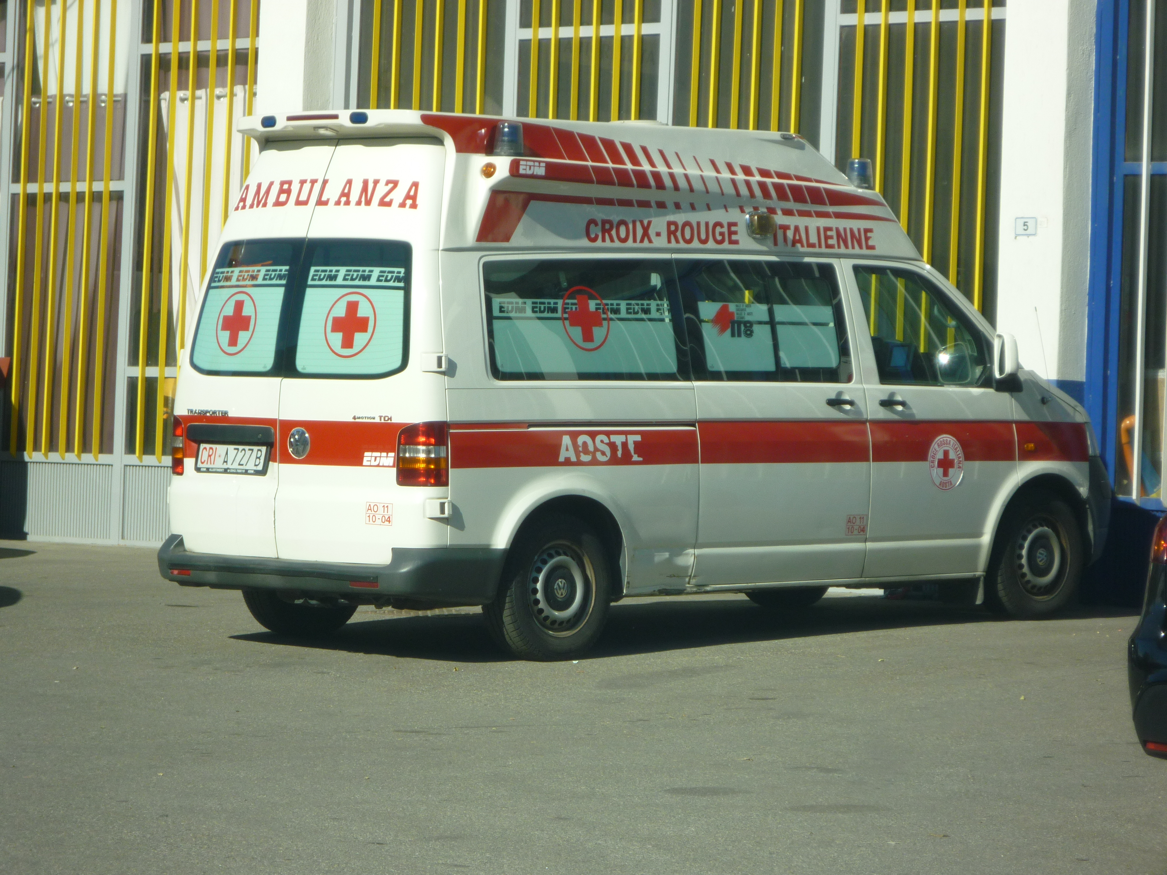 Ambulance in Aosta-Aoste (Italy)